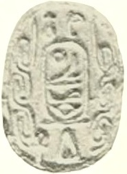 Glazed steatite scarab (type D2) bearing the cartouche of the hyksos ruler Maaibre (Sheshi): - M3ˁ-jb-Rˁ Possibly from Nile Delta, Second intermediate period. London, British Museum EA 42477.